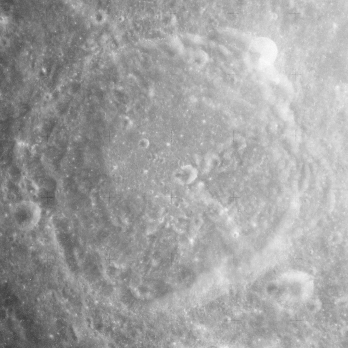 Einthoven, on the far side of the moon. Sun angle 60 deg., spacecraft altitude 124 km.